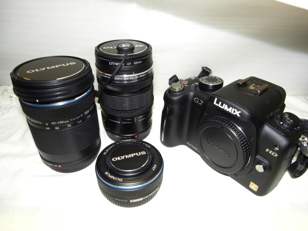 Panasonic M4/3 Camera are compatible with Olympus M4/3 Lenss